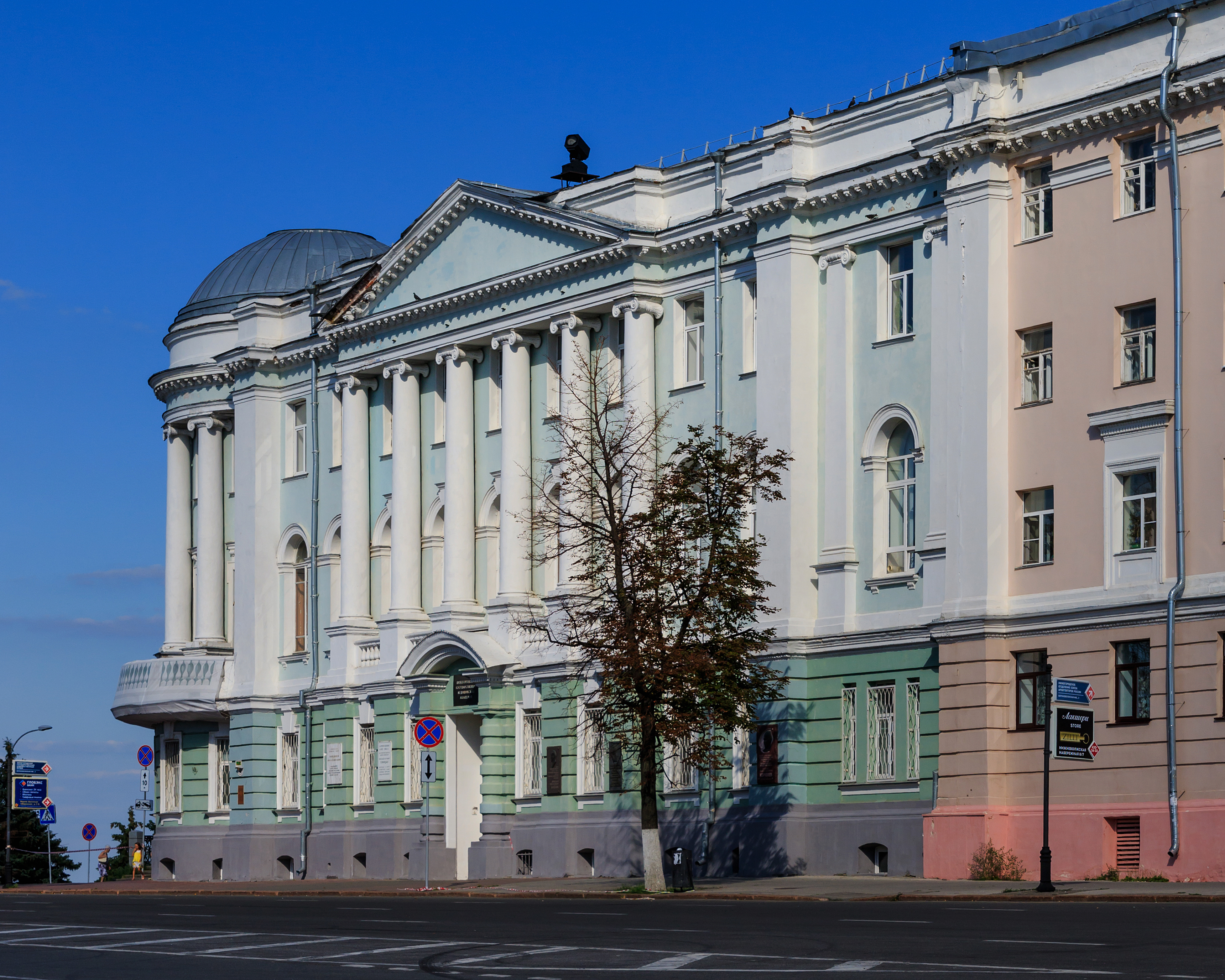 Building at 10/1, Minina i Pozharskogo Square in Nizhny Novgorod, Russia